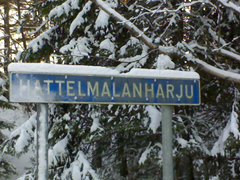 Photo from Hattelmalanharju, Hämeenlinna, Finland